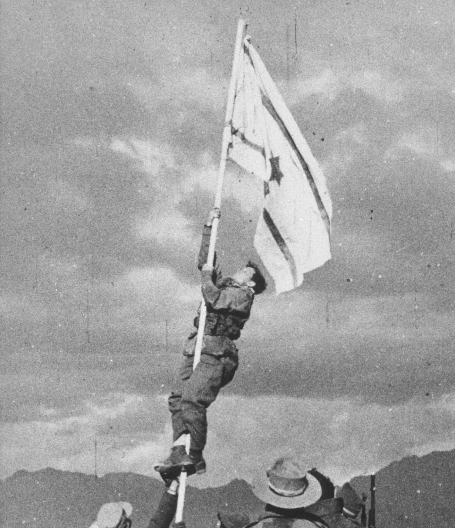 The Palmach, Israel Defense Forces